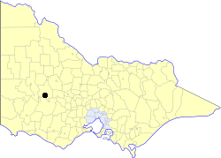 Location of the former City of Stawell within Victoria.